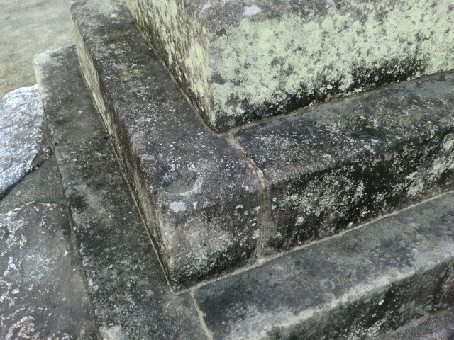 Cup marks of Susanoo shrine in Ukiha city, Fukuoka prefecture.